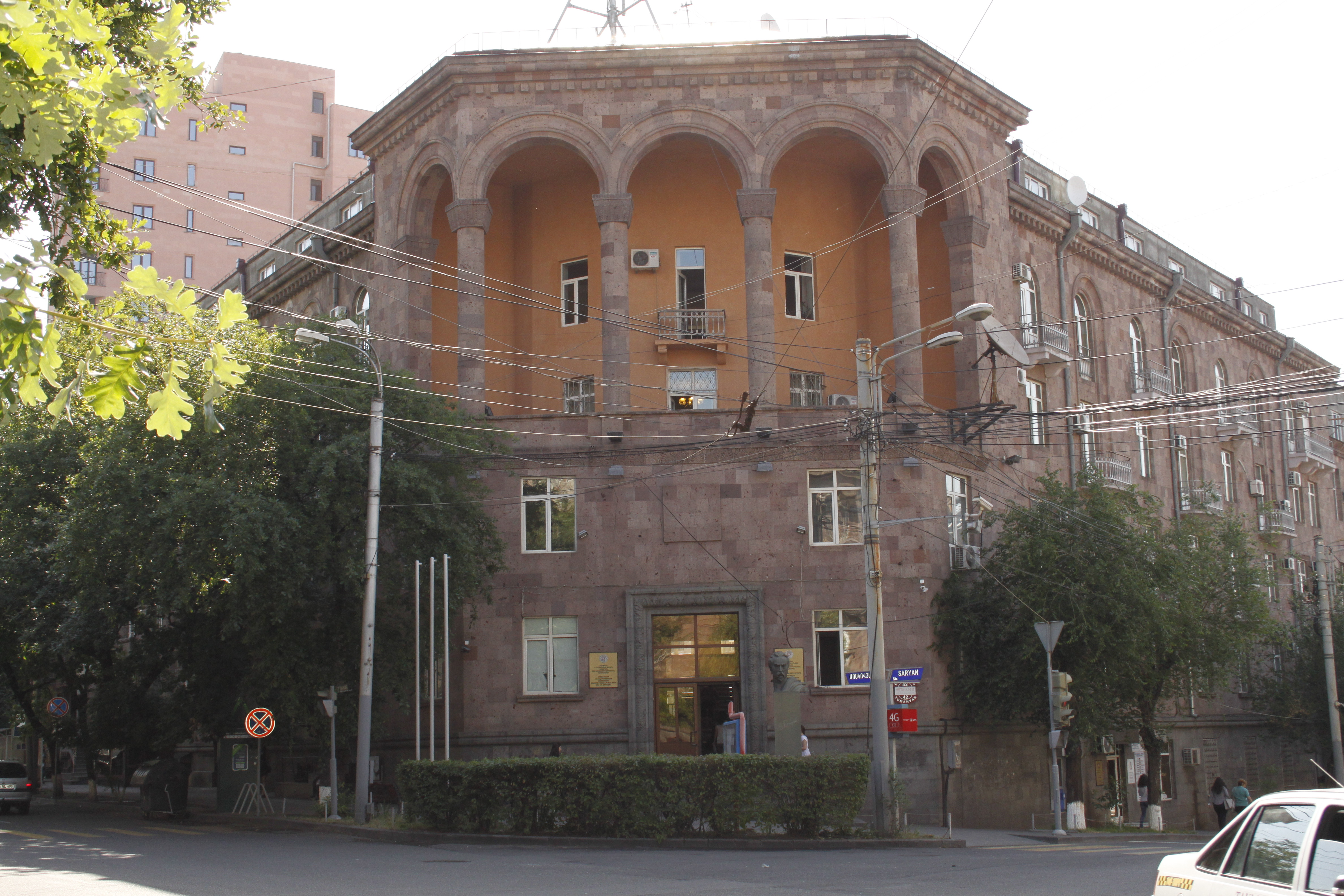 Hauptgebäude der Brjussow-Universität